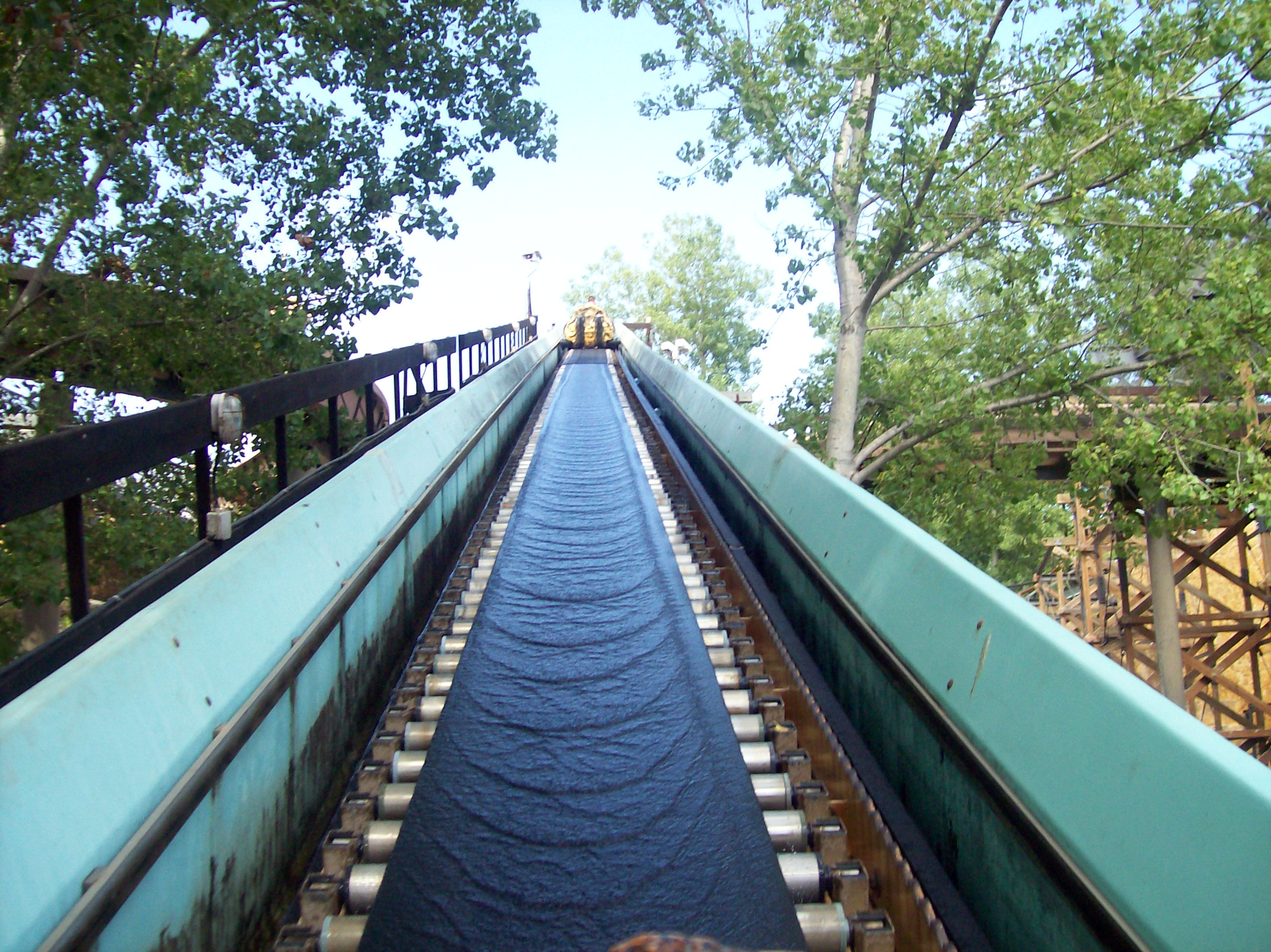 Silver River Flume in Port Aventura